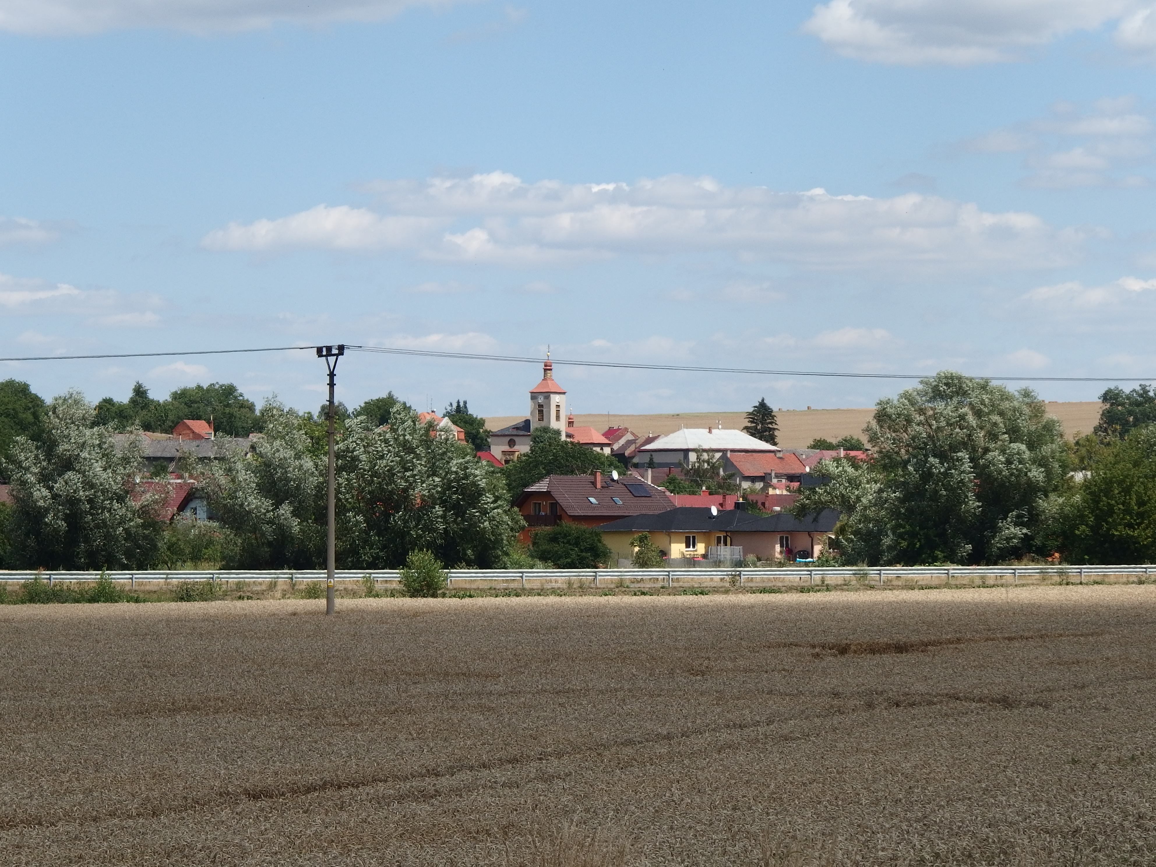 Domaželice, Přerov District, Czech Republic.